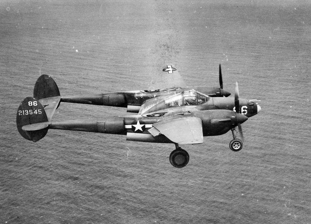 A U.S. Army Air Forces Lockheed P-38G-10-LO Lightning (s/n 42-13545) assigned to the 54th Fighter Squadron, 343rd Fighter Group, approaching Amchitka Army Airfield, Alaska (USA).